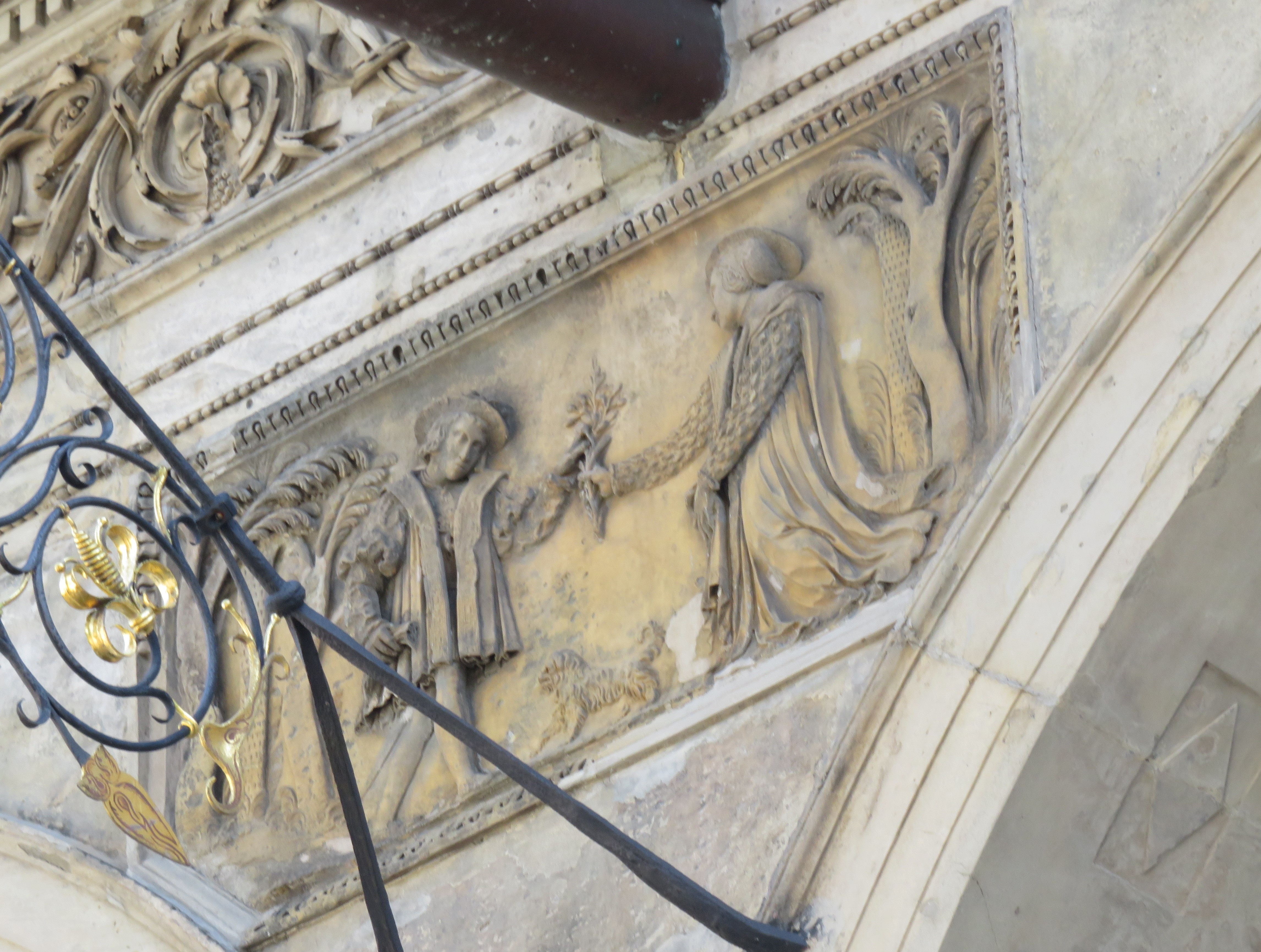 Relief of King Ferdinand I of Austria and his wife Anne of Bohemia and Hungary in Royal Summer Palace in Prague, before 1550.